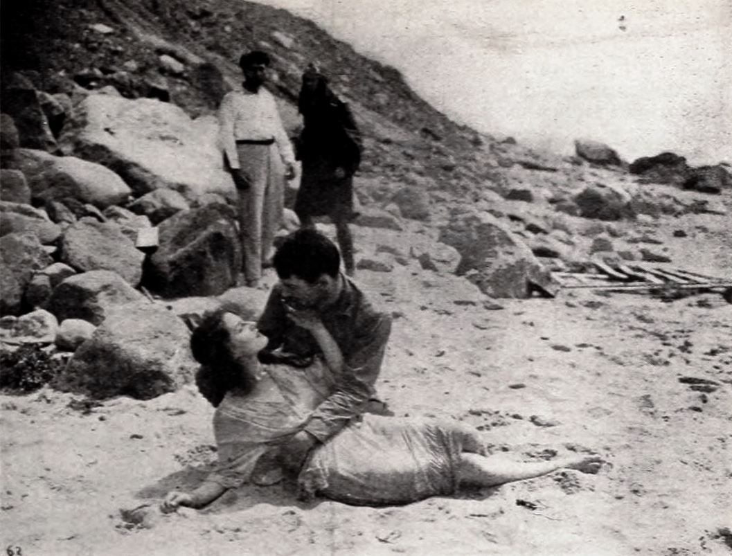 Still from the American drama film The Bootleggers (1922), on page 75 of the February 4. 1922 Exhibitors Herald.